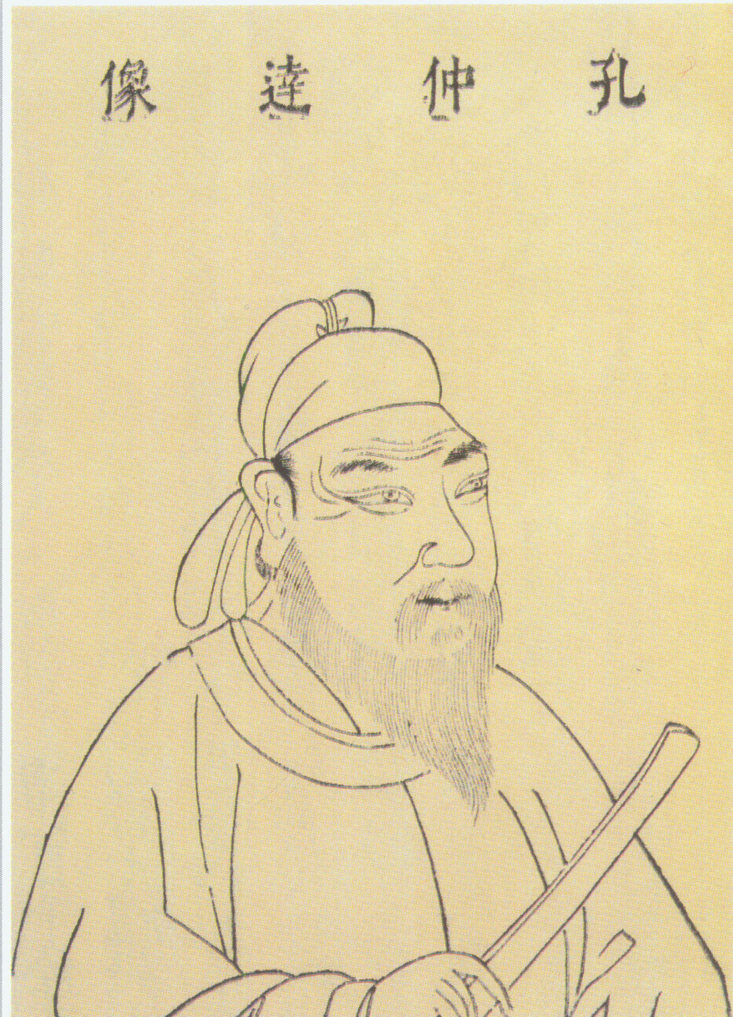 Portrait of Kong Yingda from Sancai Tuhui